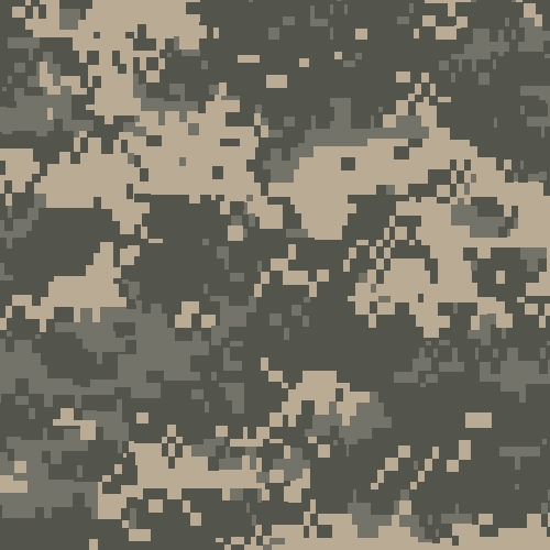 The US Universal Camouflage Pattern, square of aproxemately 30 x 30 cm redrawn from actual specimen.